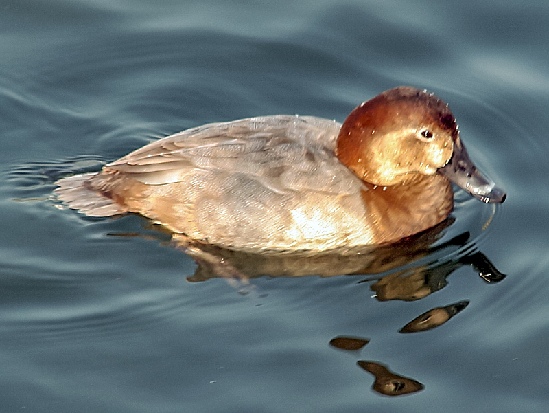 Pochard, female, Nov. 2005, Yokohama JAPAN ; Japanese description:ホシハジロ メス 2005年11月 横浜市金沢区 (投稿者自身による撮影)